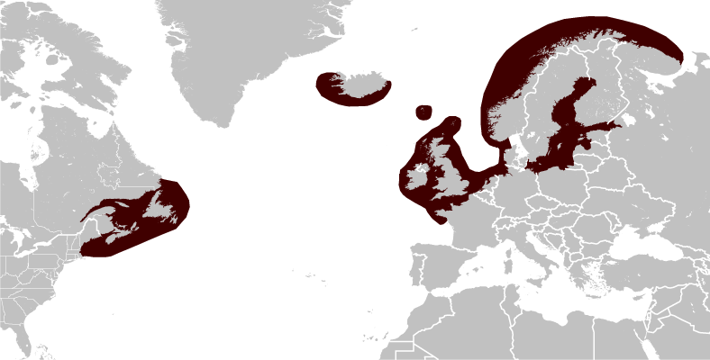 Geographical distribution of the Grey Seal Halichoerus grypus. The map was created using the Generic Mapping Tools, GMT, version 5.1.2.